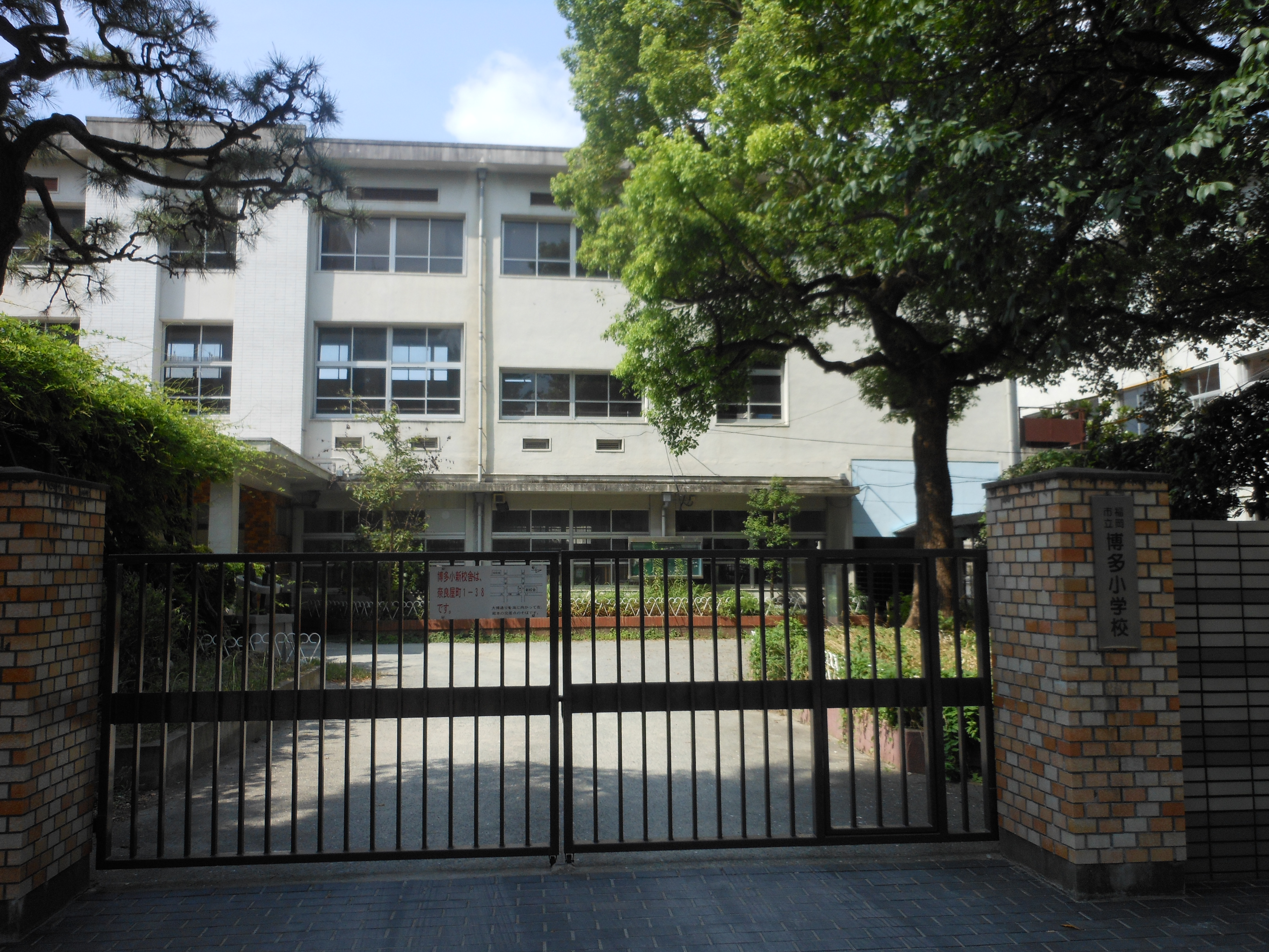 This building was used as Fukuoka city Hakata elementary school in 1998 - 2001. Before 1998, its name was Fukuoka city Reizen elementary school.